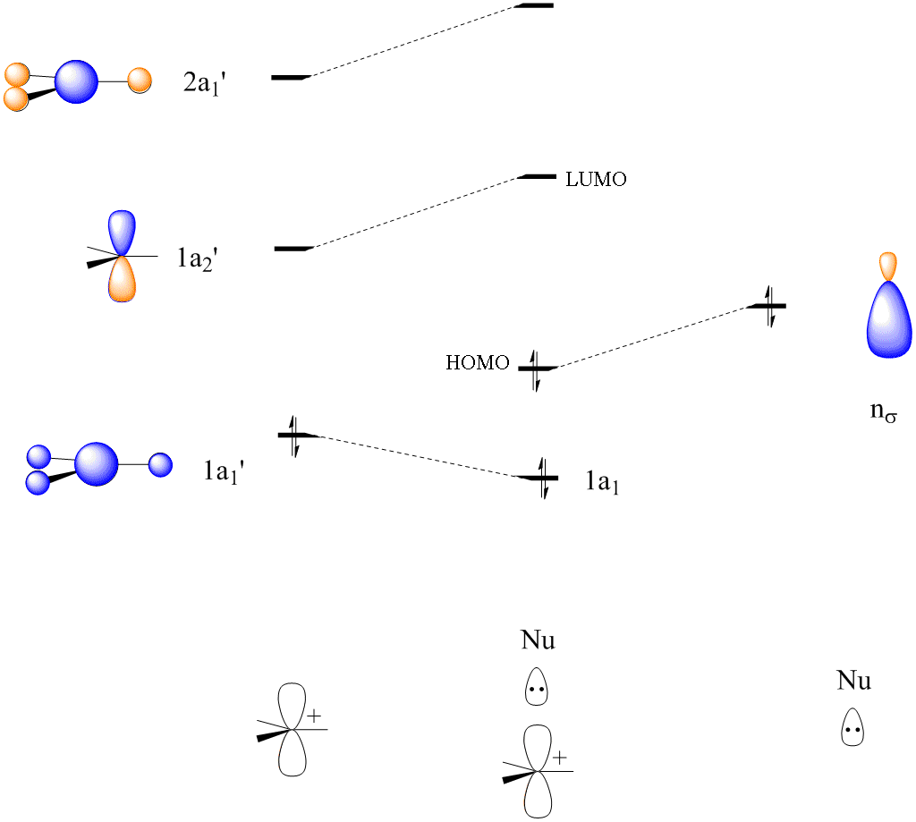 nucleophilic